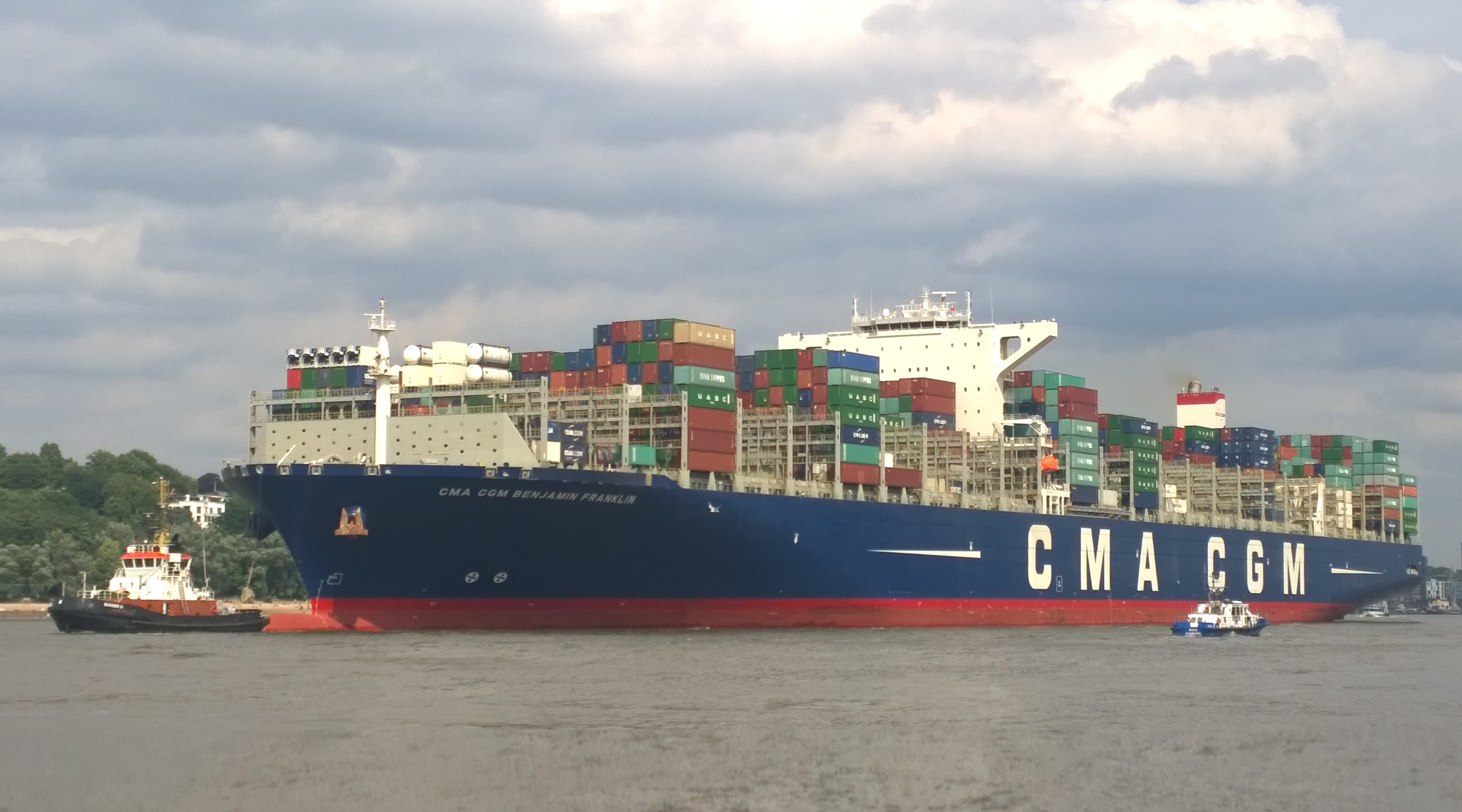 Container ship CMA CGM Benjamin Franklin starting port of Hamburg in July 2016